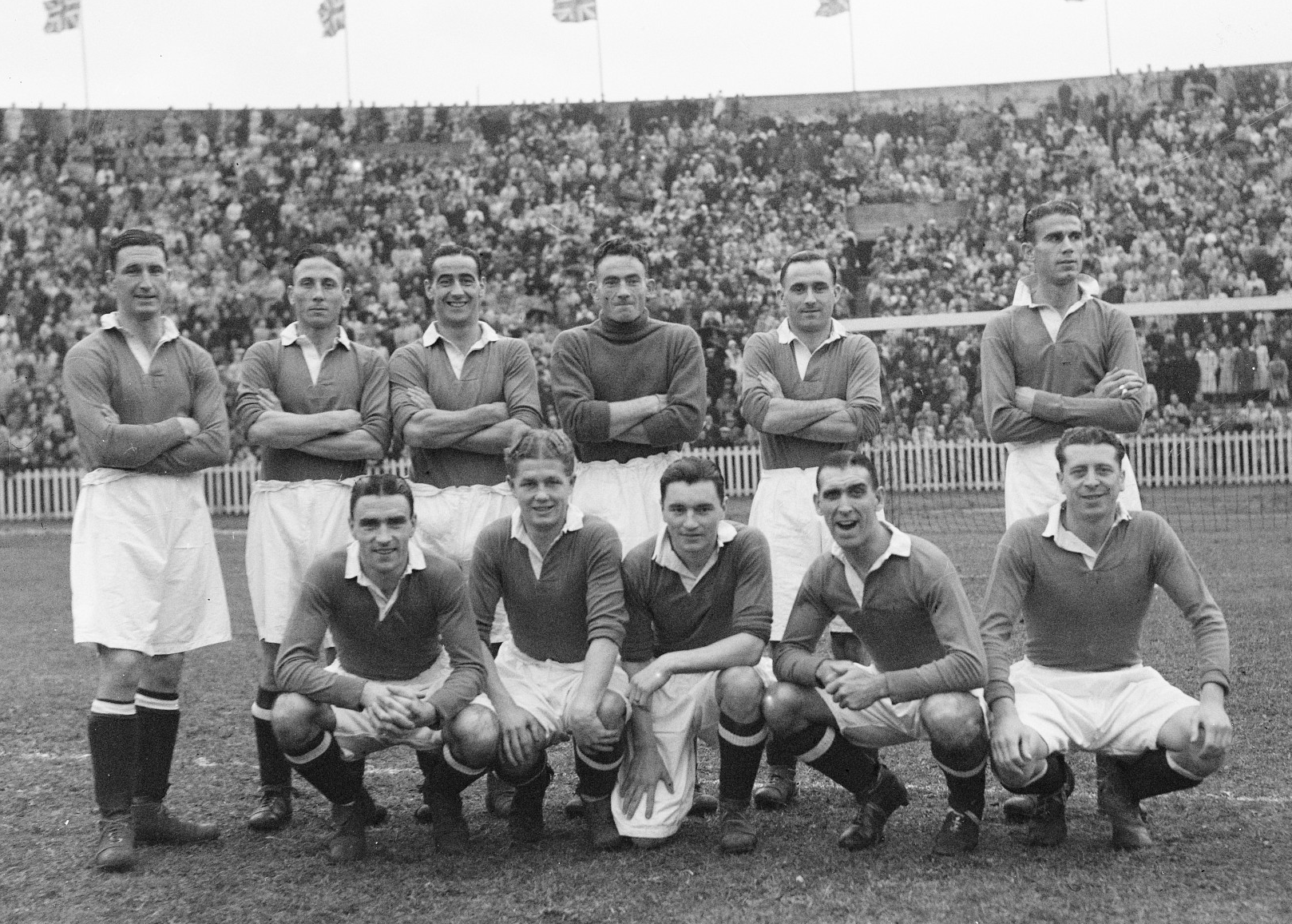 FC Chelsea squad:standing fltr: Harris, Winter, Walker, Medhurst, Bathgate, Alex Machin (?);sitting fltr: Campbell, Bowie, Armstrong, Goulden, Jones.